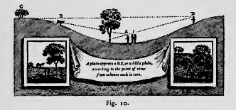 image in book Humphry Repton (1752-1818), The Art of LANDSCAPE GARDENING, page 87